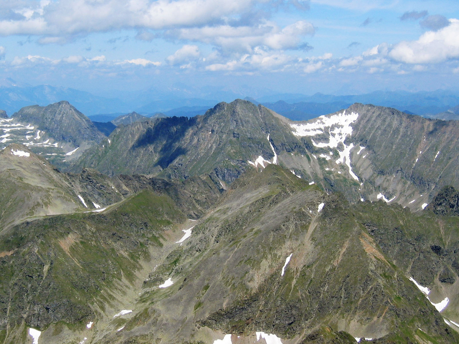 View from the Hochgolling (Schladminger Tauern) to the northeast. The peak Waldhorn (2702 m A.S.L) is near the center and connected by a ridge to the Kieseck (2681 m; right). The peaks Großes Gangl and Pöllerhöhe are in the foreground (below the peak of the Waldhorn, slightly to the right). The original photo was cropped; colors were adjusted.